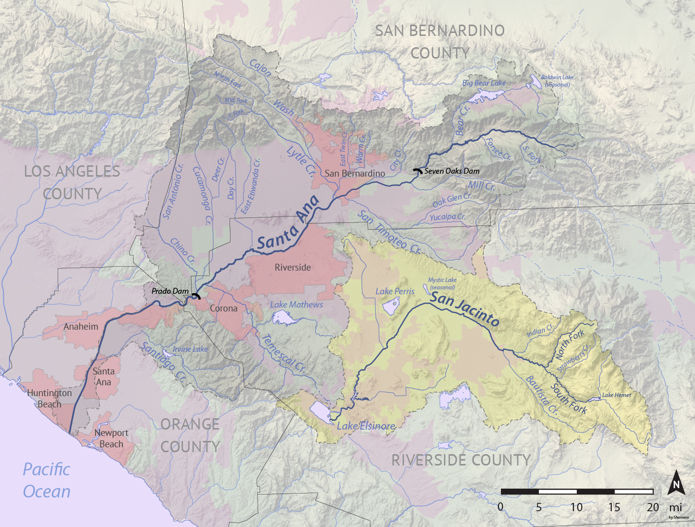 Map of the Santa Ana and San Jacinto drainage basins in Southern California. Made using USGS National Map data.